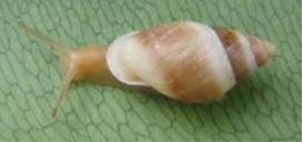 Photo of Partula taeniata from Moorea.